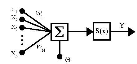 Formal neuron model S((Suma(wx)+Theta))